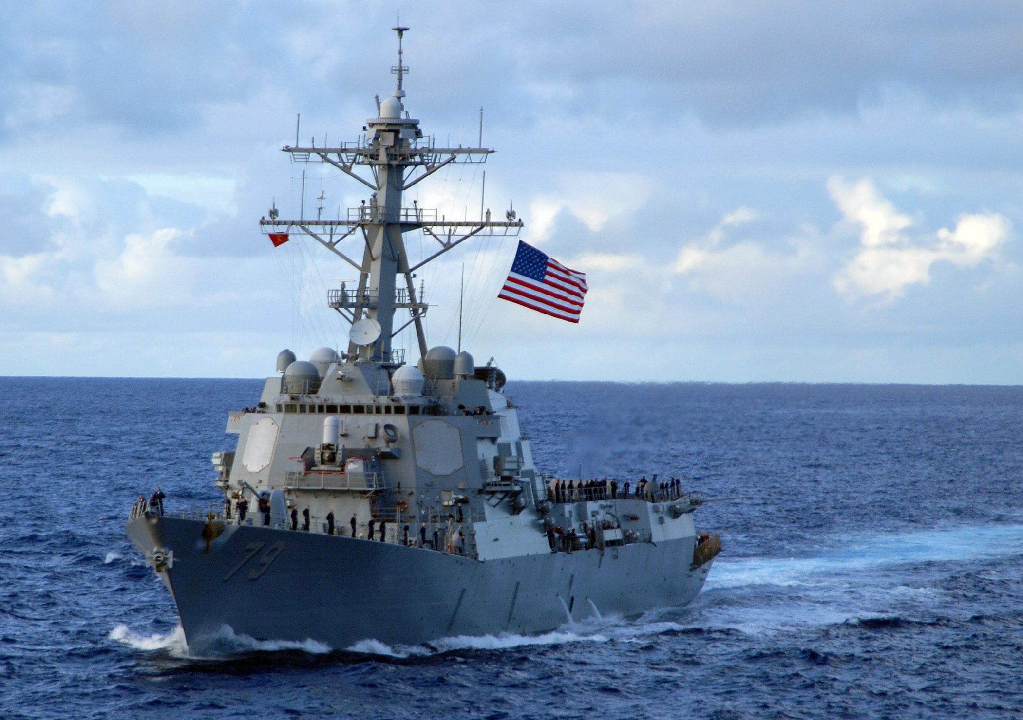 The guided-missile destroyer USS Oscar Austin (DDG 79) prepares to perform a multi-ship maneuvering exercise with the Harry S. Truman Strike Group. The strike group is en route to the Central Command area of responsibility as part of the ongoing rotation to support maritime security operations in the region.